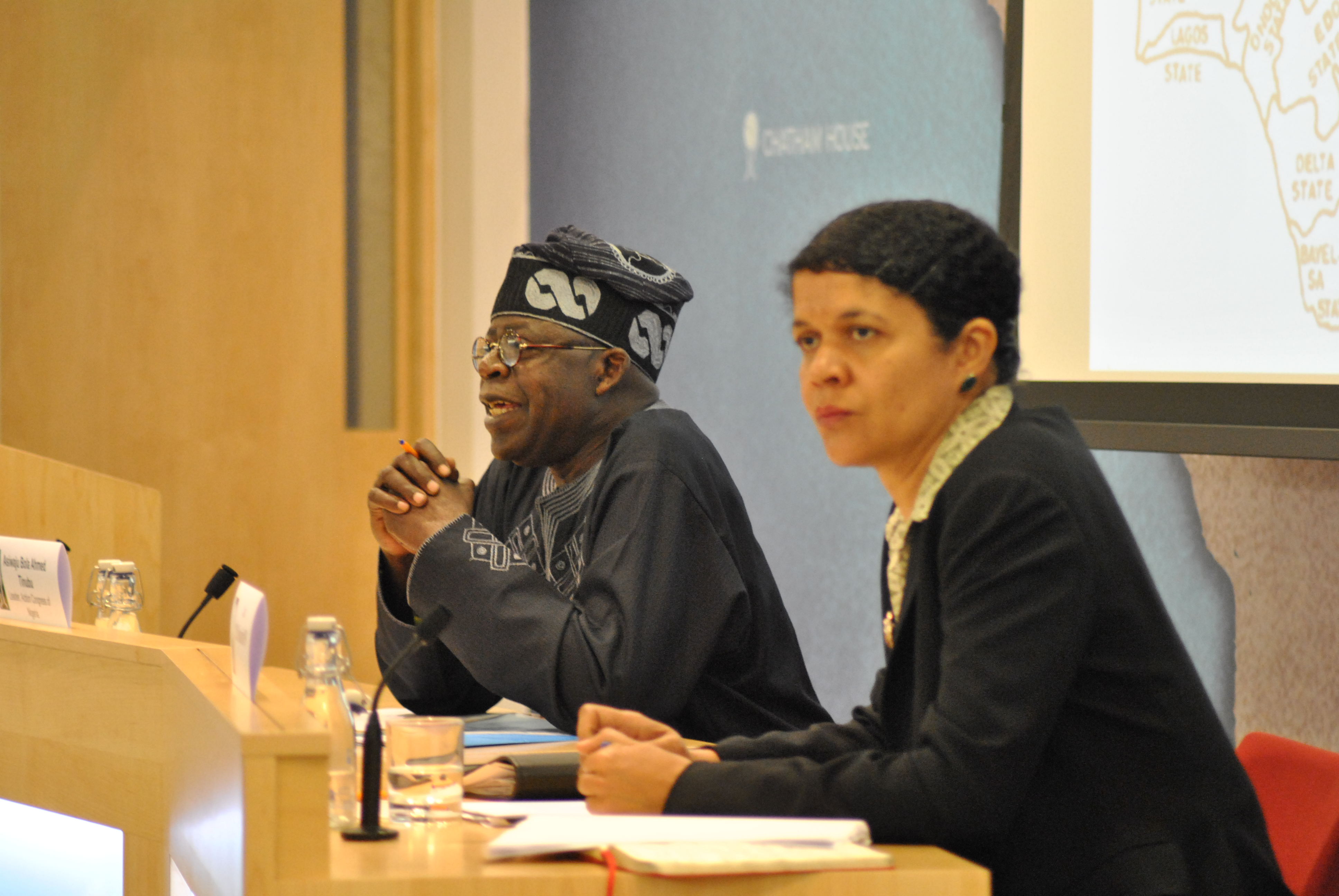 Asiwaju Bola Ahmed Tinubu and Chi Onwurah MP.